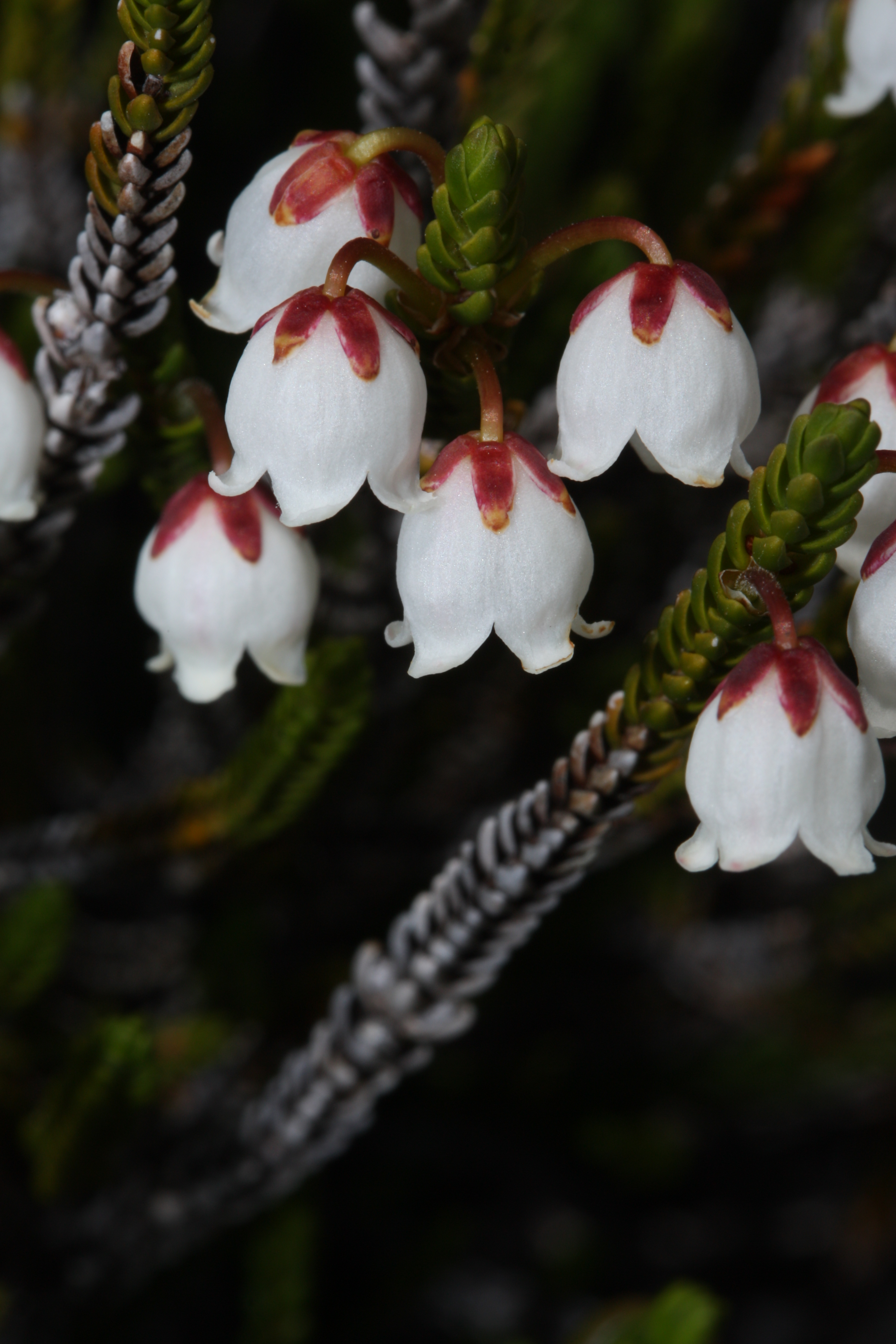 Western Moss Heather